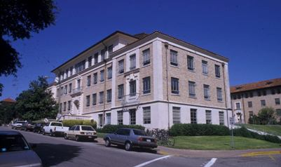 Former Geography building on UT Campus